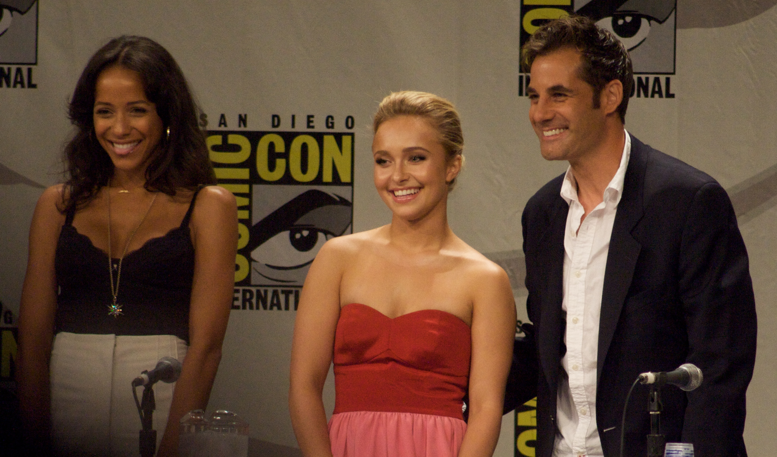 Dania Ramirez, Hayden Panettiere, and Adrian Pasdar (Maya, Claire, and Nathan respectively) at the Heroes panel, comic-con 2008.